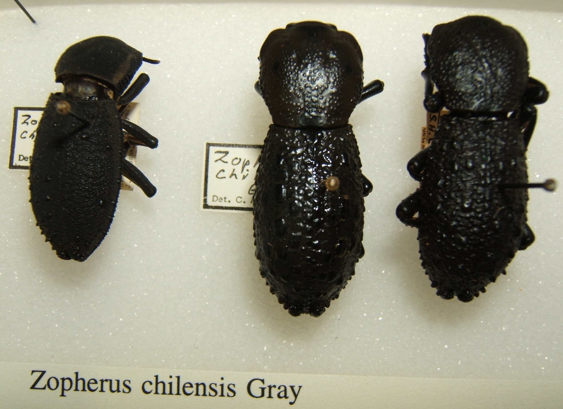 Zopherus chilensis adult taken by Shawn Hanrahan at the Texas A&M University Insect Collection in College Station, Texas.